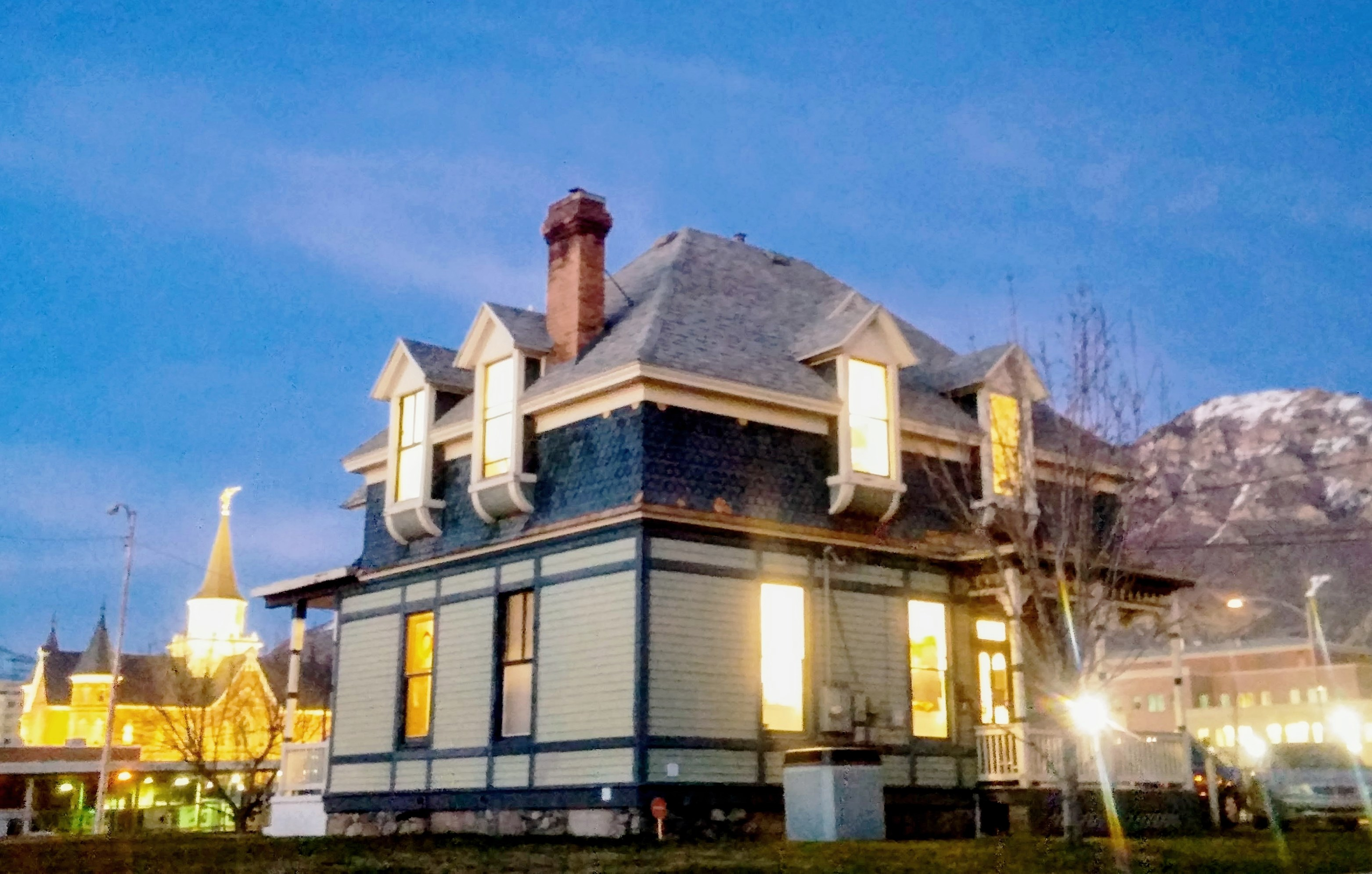 The Encircle LGBTQ+ Family and Youth Resource Center